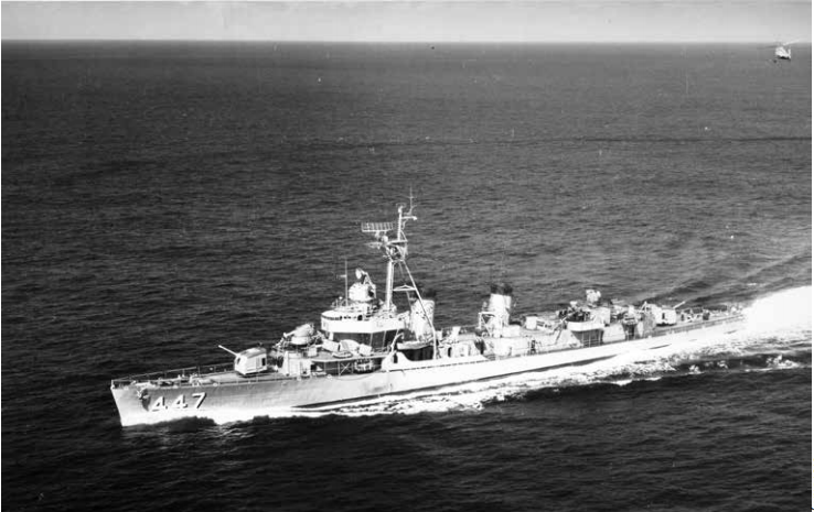 The U.S. Navy destroyer USS Jenkins (DD-447), shown here en route to Manila, participated in early surveillance patrols along the coast of South Vietnam, in 1965.